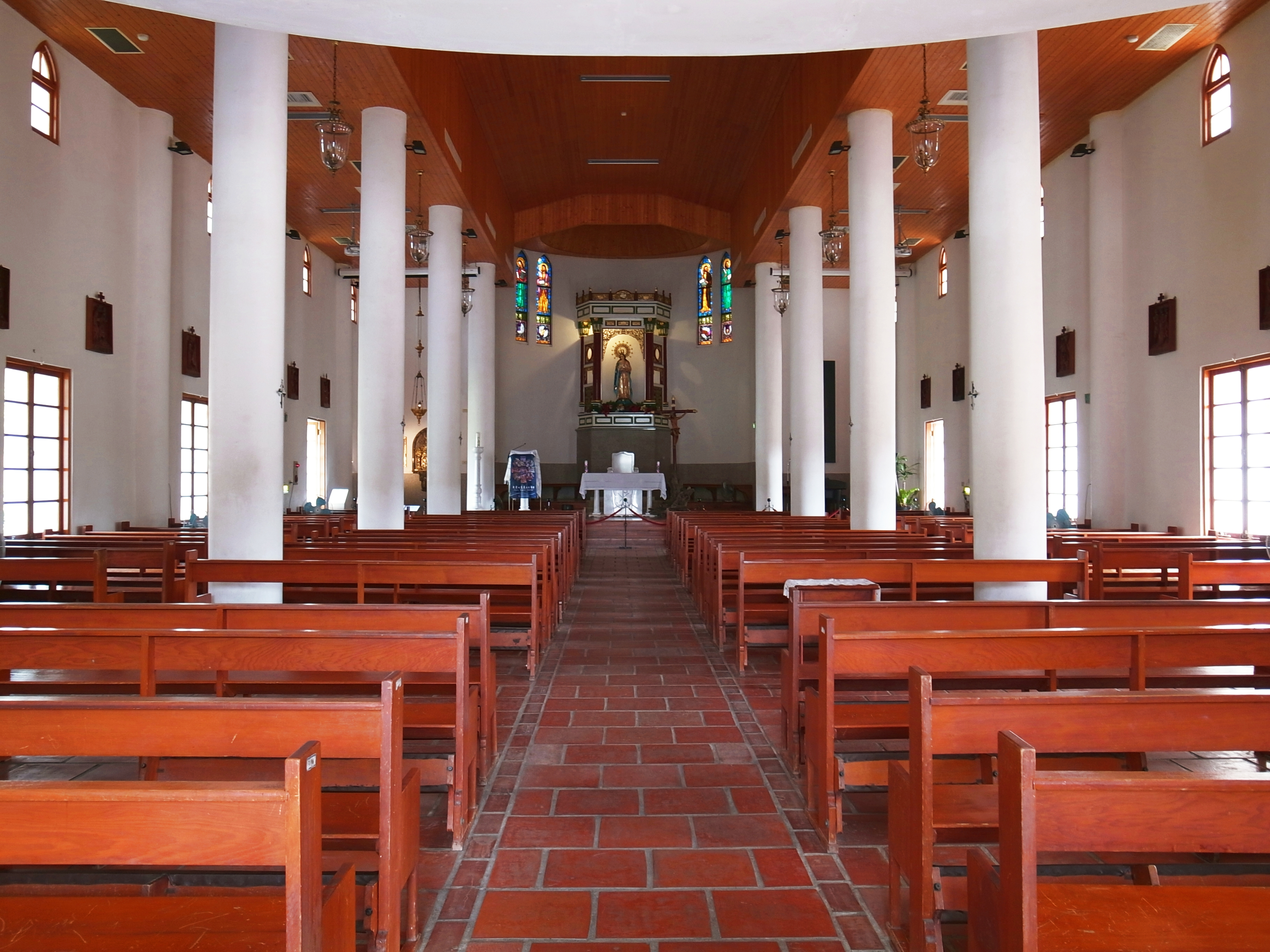 The internal view of the Catholic Church of Wanchin, which is the oldest catholic church in Taiwan.